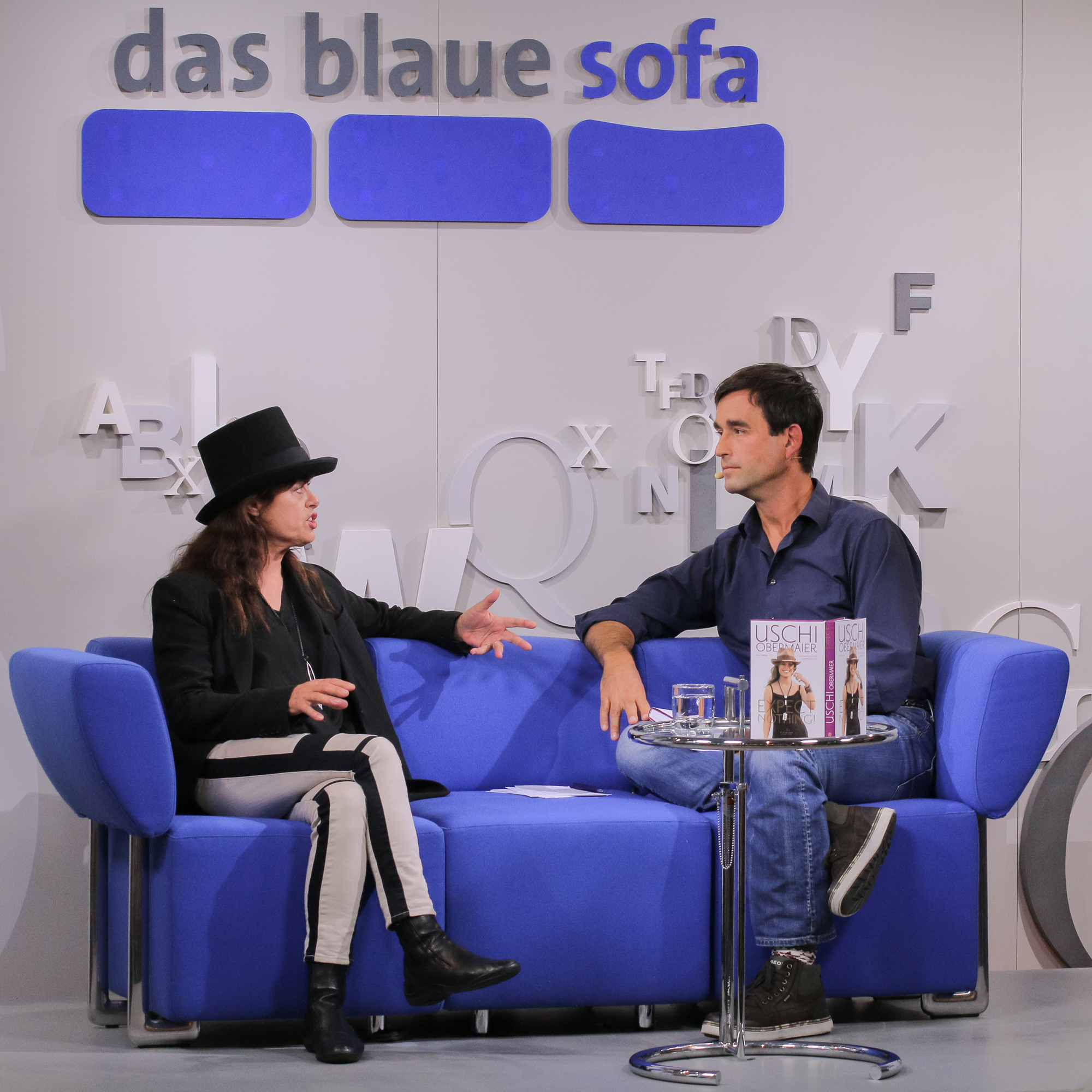 Uschi Obermaier tolking to the journalist Michael Sahr on the blue sofa at the 2013 Frankfurt Book Fair